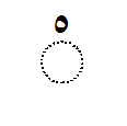 The letter Sukun from the Arabic alphabet, belonging to the group of Harakat diacritic marks, used to represent vowels. Sukkun is used to indicate the absence of a vowel. The circle indicates the position of the consonant the Harakat is used upon.